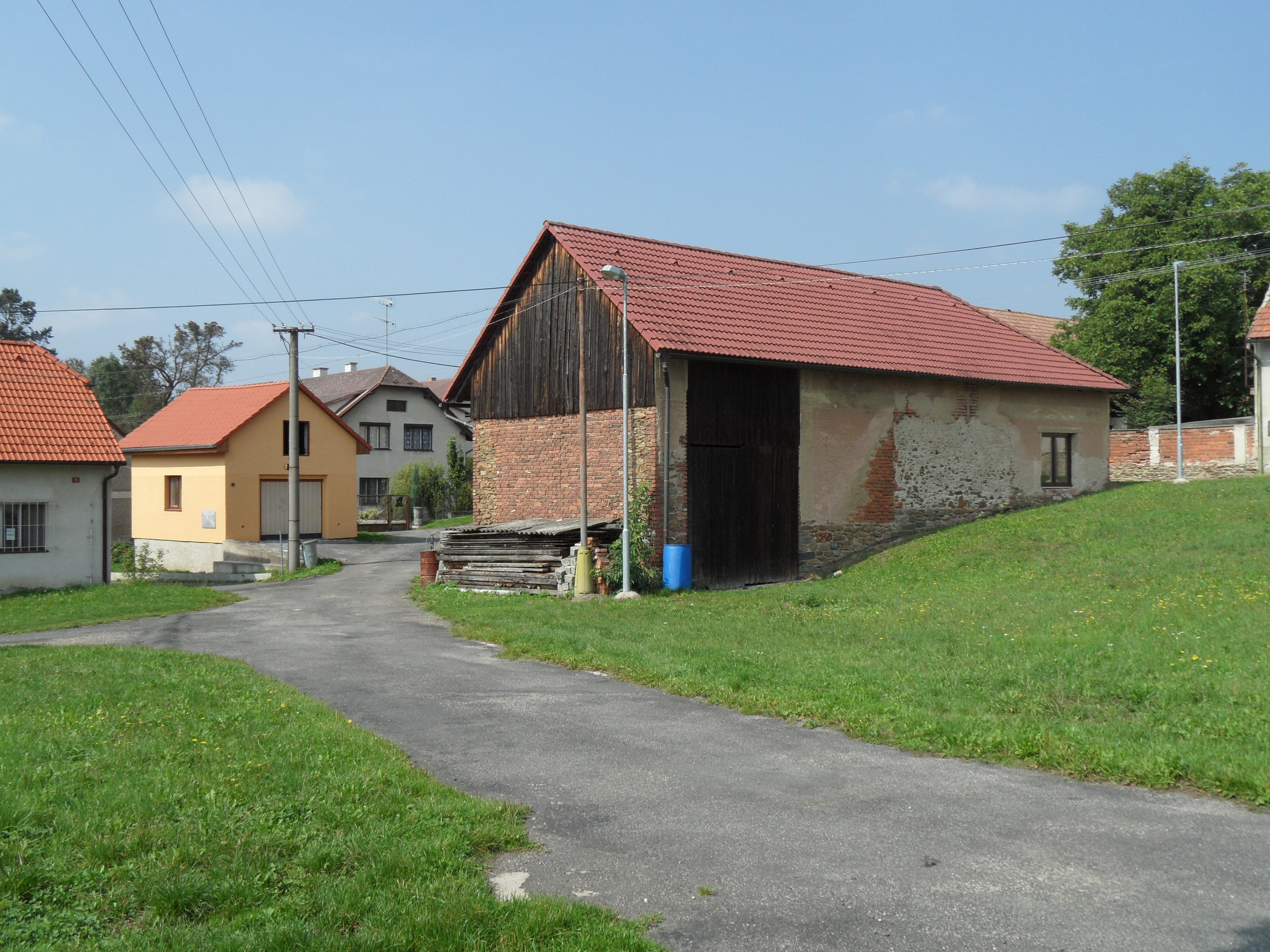 Dolní Pohleď F. Houses, Kutná Hora District, the Czech Republic.